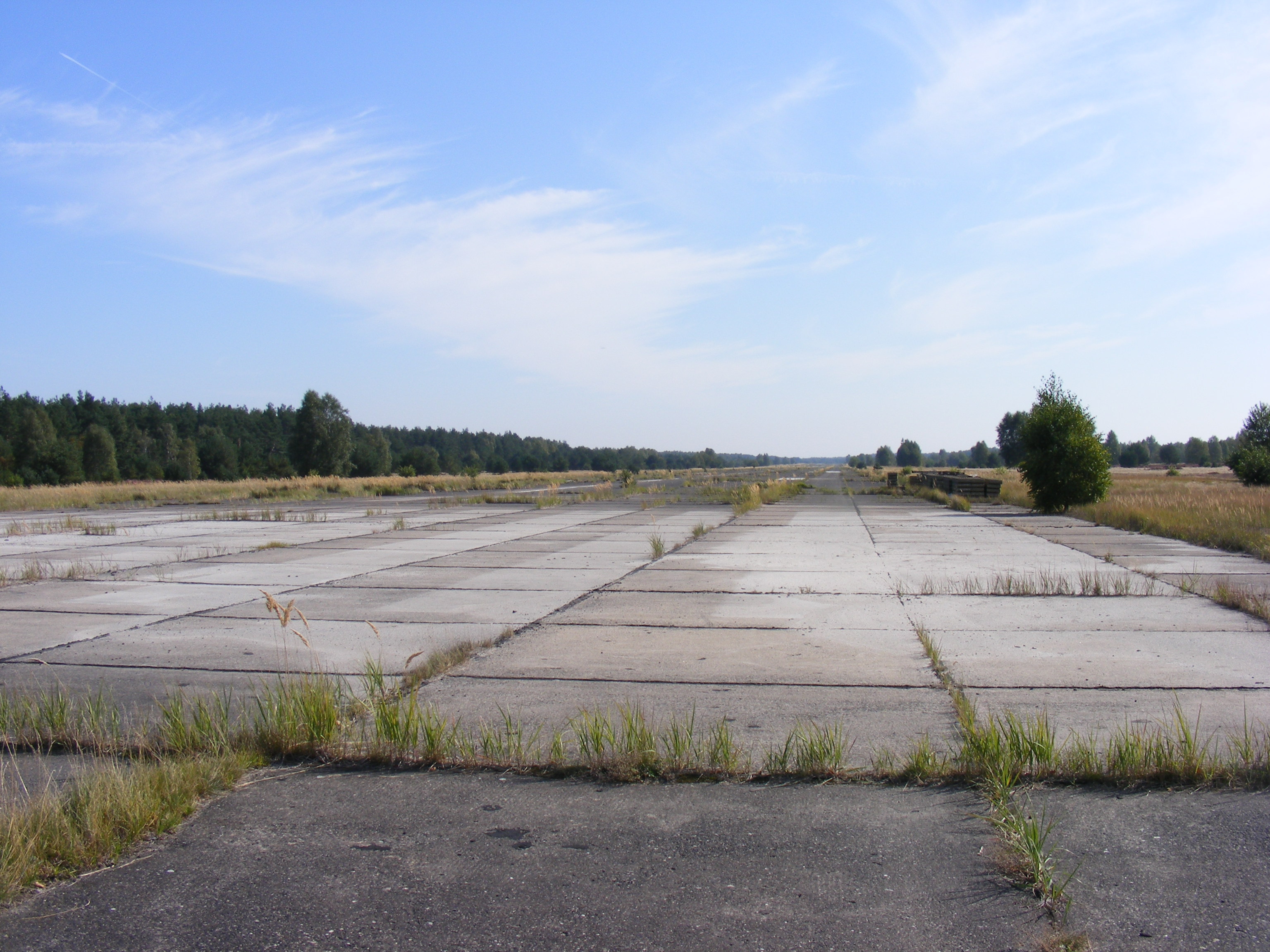 Former aerodrome Sperenberg Terminal GSSD Group of Soviet Forces in Germany Brandenburg Germany Runway RWY military Airport